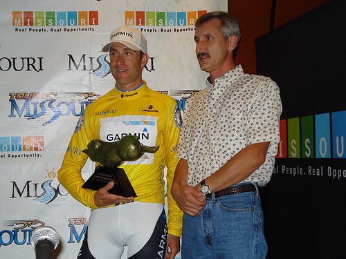 Christian Vande Velde after winning the Time Trial at 2008 Tour of Missouri